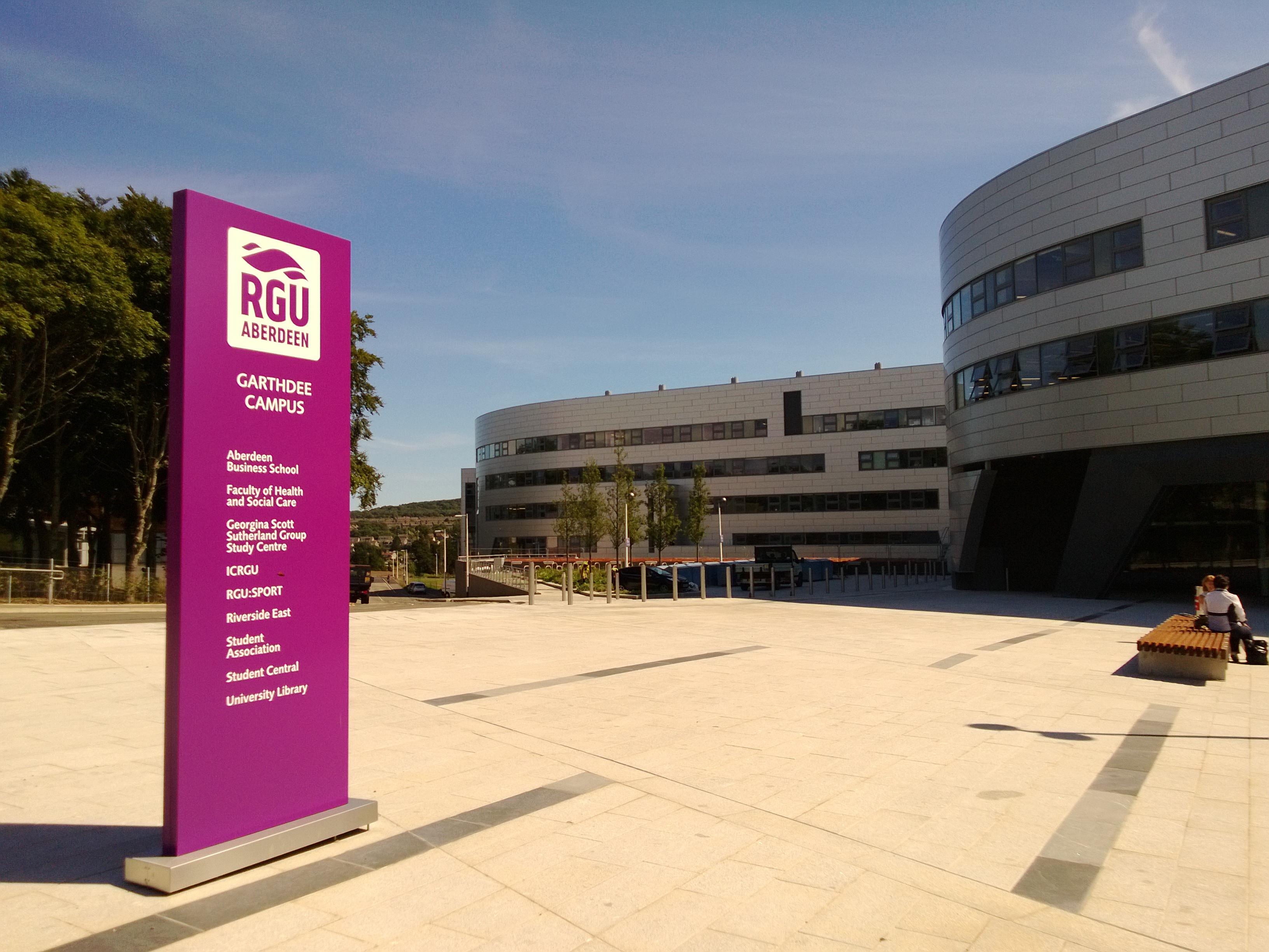 Main plaza at The Robert Gordon University's campus at Garthdee, Aberdeen, UK. Riverside East building is shown on right. The plaza is paved with granite blocks, each manually cut to shape. Photo taken August 2013.